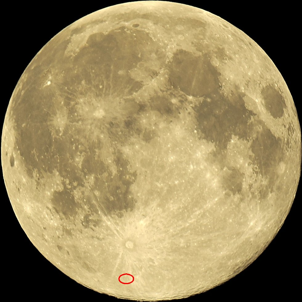 Location of crater Clavius on the Moon